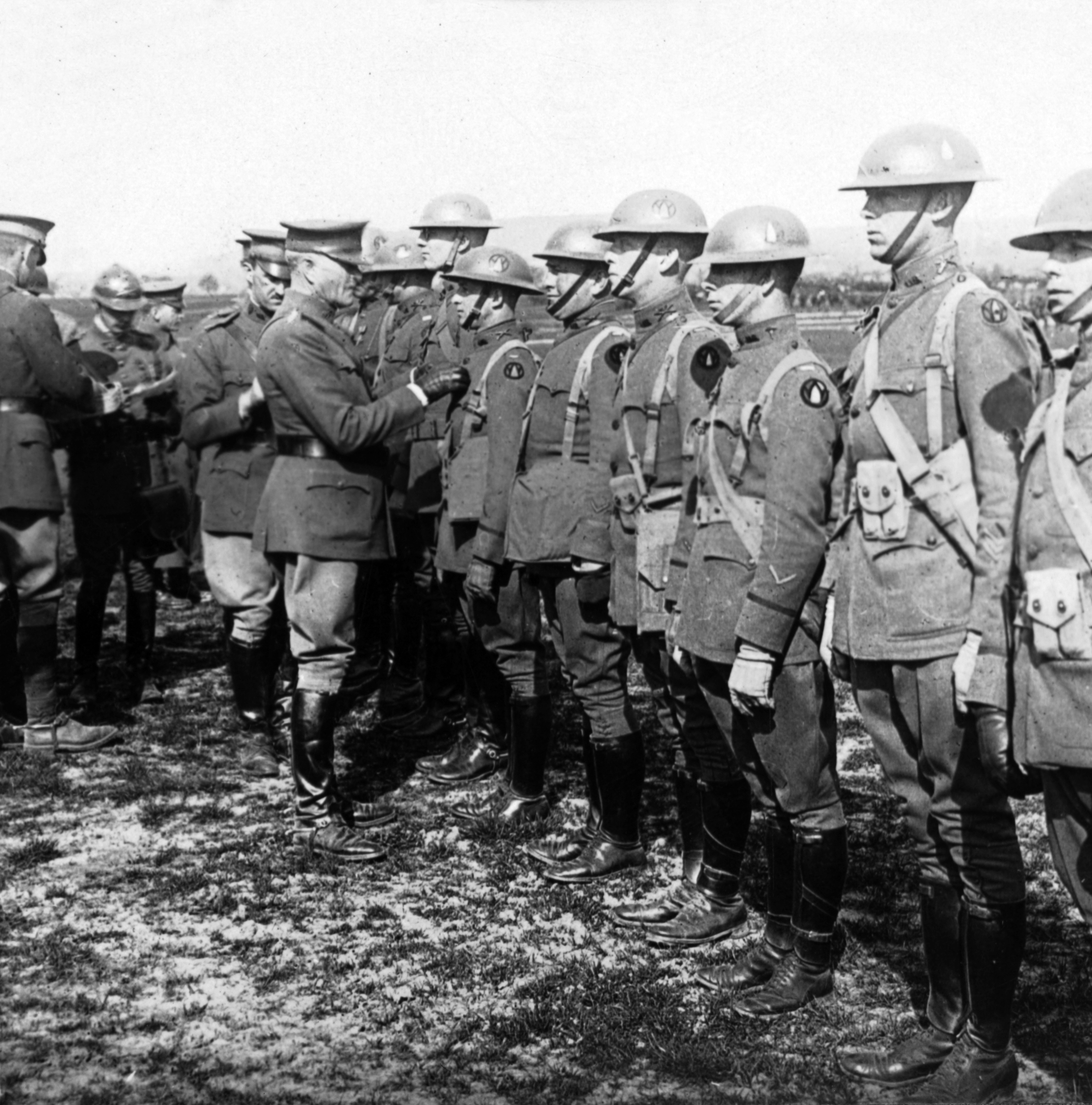 Trier, Germany. Officers of the American Expeditionary Force (AEF) receiving medals from General John J. Pershing, Commanding General of the AEF. Next to the General is one of his aides with a list of the men and their decorations. In the background a US artillery officer confers with a French artillery officer. The officers waiting to receive their decorations are wearing gloves with their gas masks on their right hip and web belts and pistols. The artillery officer (second from right) is wearing a badge of crossed cannons on his collar and has three chevrons on his sleeve, each one depicting six months of service. The next officer is wearing a caduceus on his collar, indicating that he is a medical officer, and the three next to him are infantrymen, wearing crossed rifles on their collars. These officers are all wearing one chevron on their sleeve, indicating six months of service.